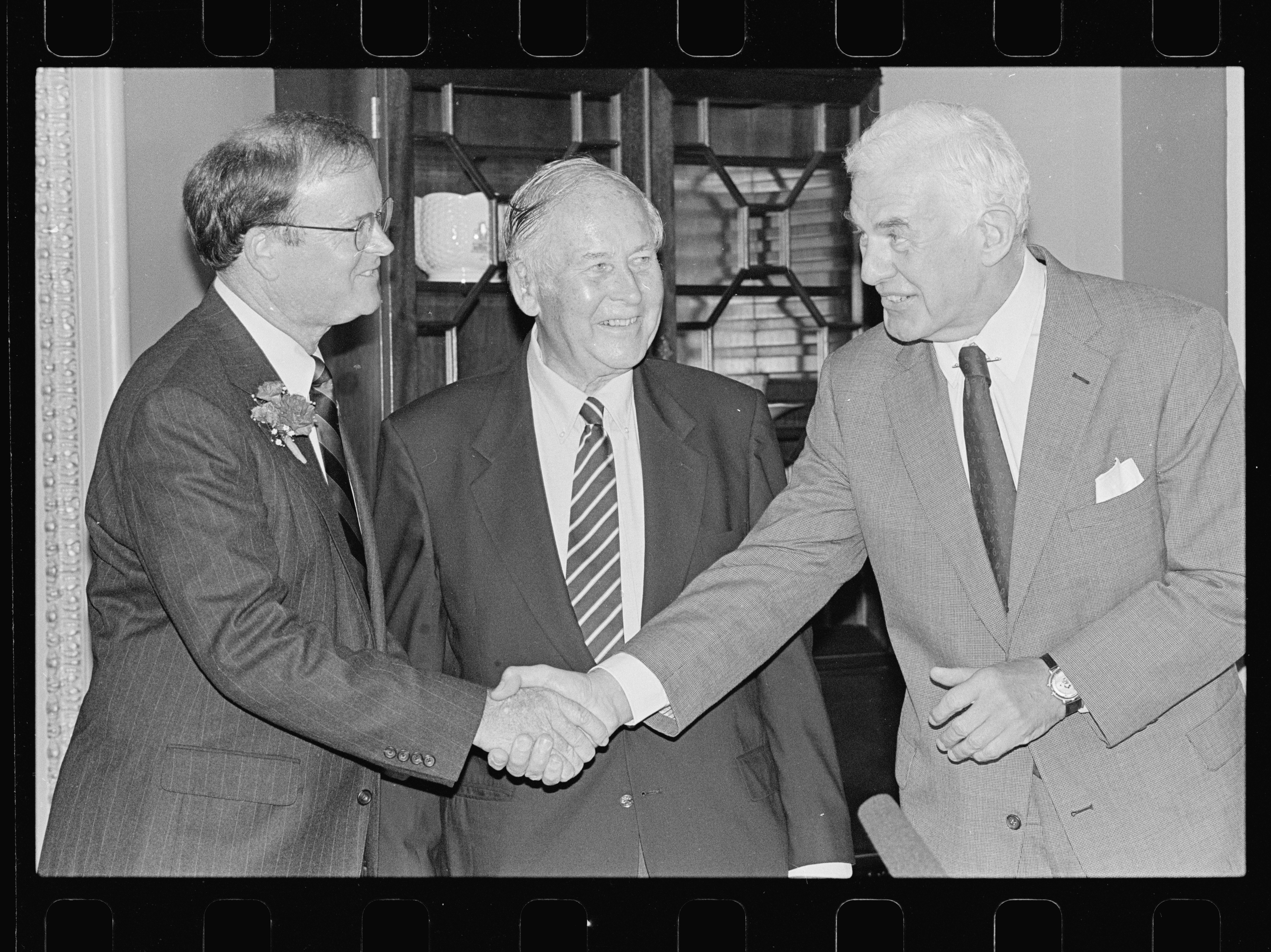 United States Representative Samuel Farr shaking hands with Speaker of the House Tom Foley during Farr's swearing in ceremony